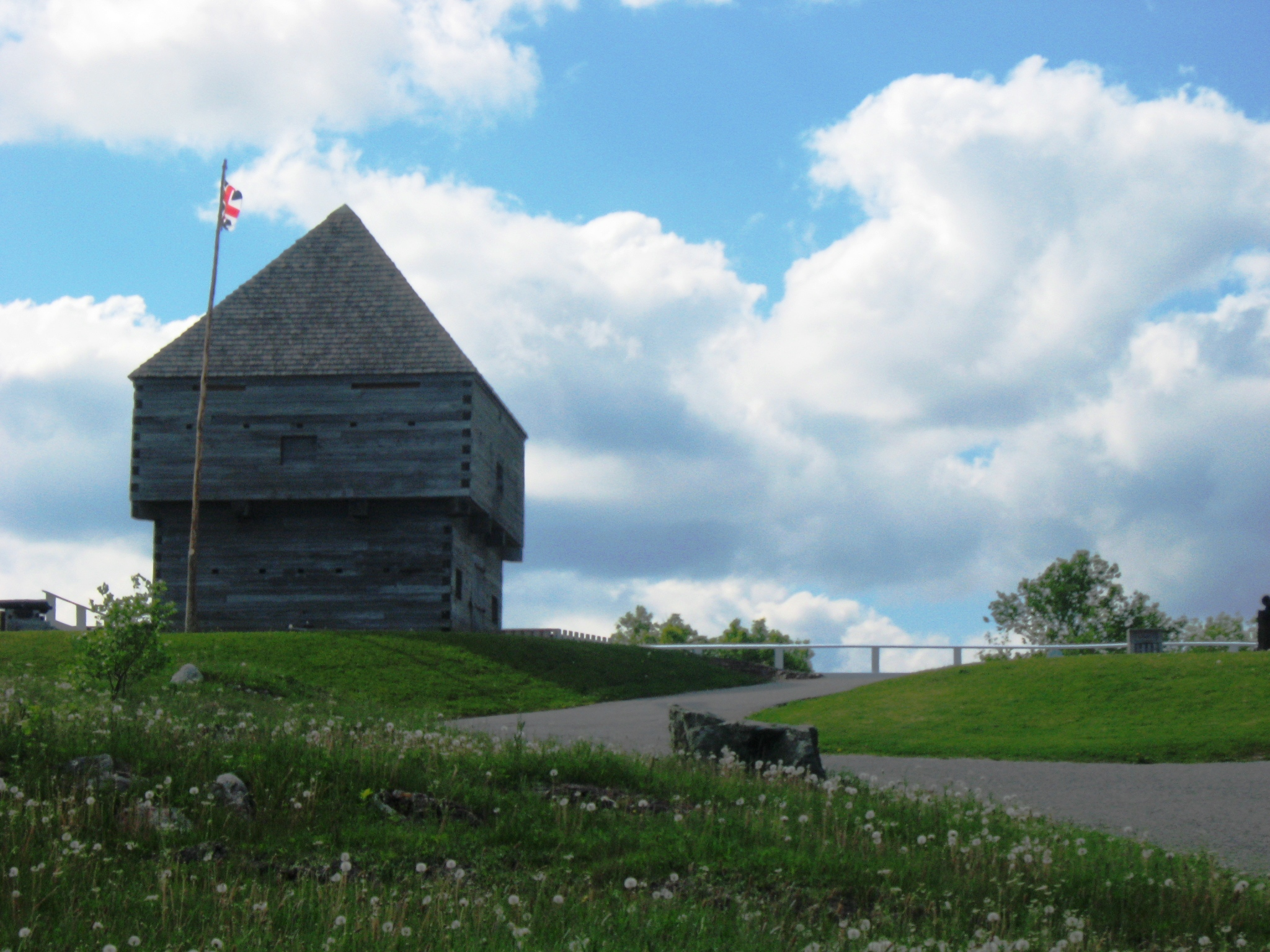 Reconstructed blockhouse at Fort Howe, Saint John, New Brunswick, Canada